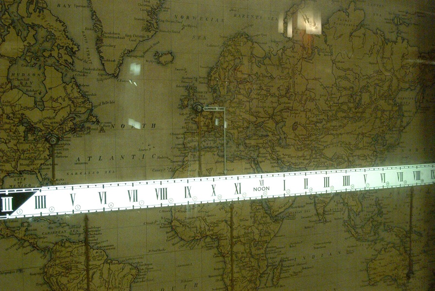 photo of a linear clock seen in London, Picadilly Circus tube station, taken by me in 2002